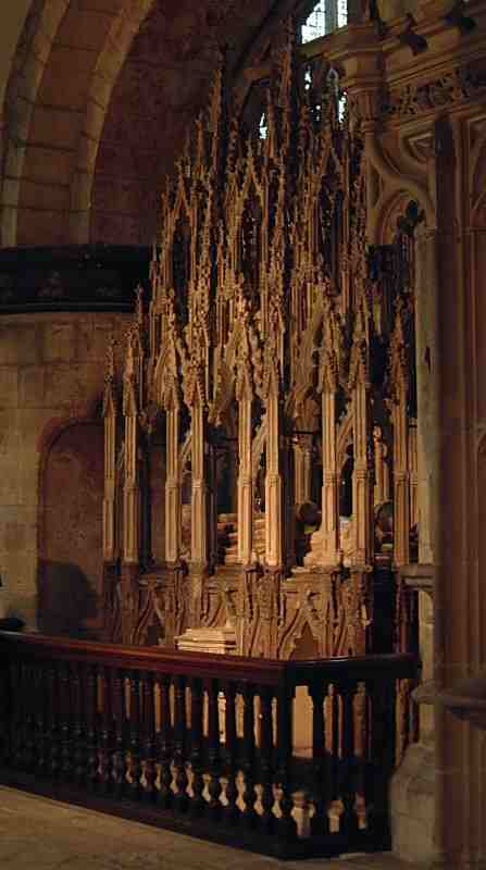 Gloucester cathedral, Gloucester, England - Edward II's Tomb